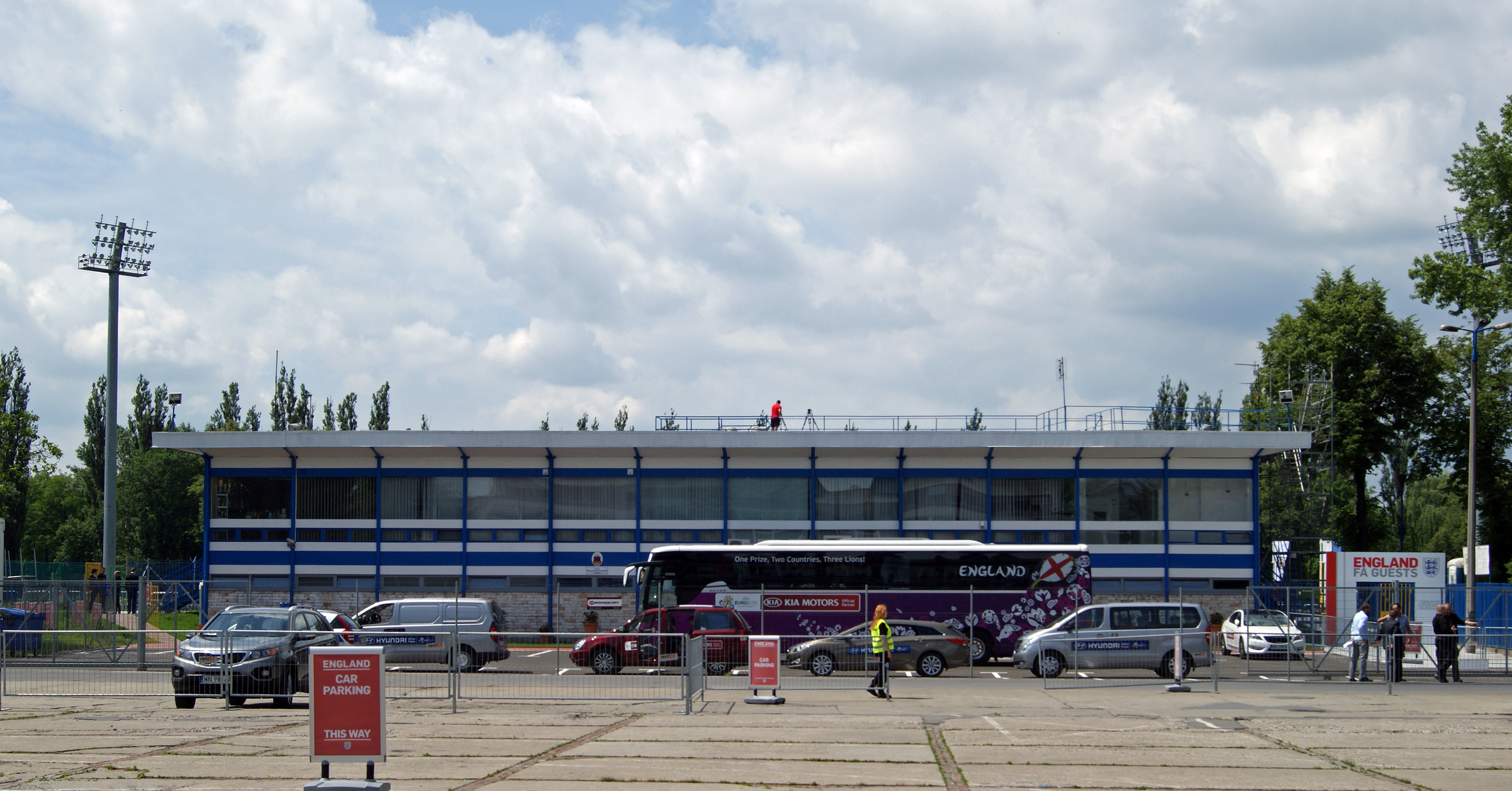 SC Hutnik Nowa Huta, EURO 2012 England national football team's training stadium, 4 Ptaszyckiego street, Nowa Huta, Krakow, Poland